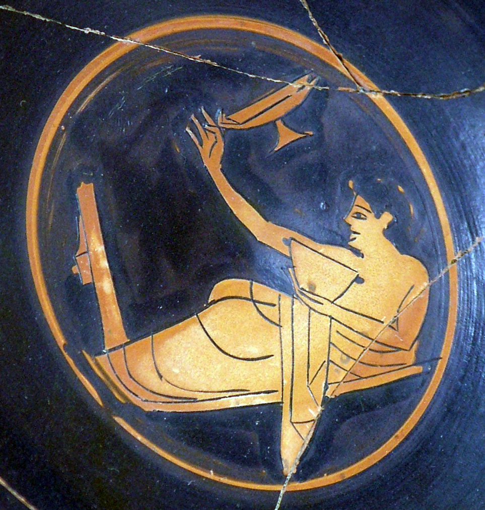 Young man playing the kottabos. Red-figure kylix, ca. 510 BC.